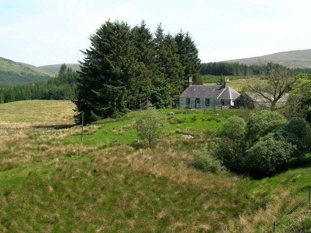 Old Buildings At Tarfessock Looking towards the old farm buildings from the main access track. Although a beautiful location in fine weather, life must have been quite hard for the people who worked the land in these remote places.